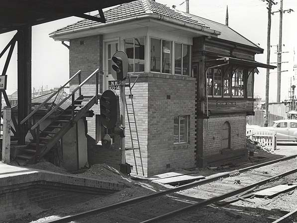 Wickham Railway Station - Signal Box Dated: No date Digital ID: 17420_a014_a014000786 Rights: We'd love to hear from you if you use our photos. Many other photos in our collection are available to view and browse on our website using Photo Investigator.